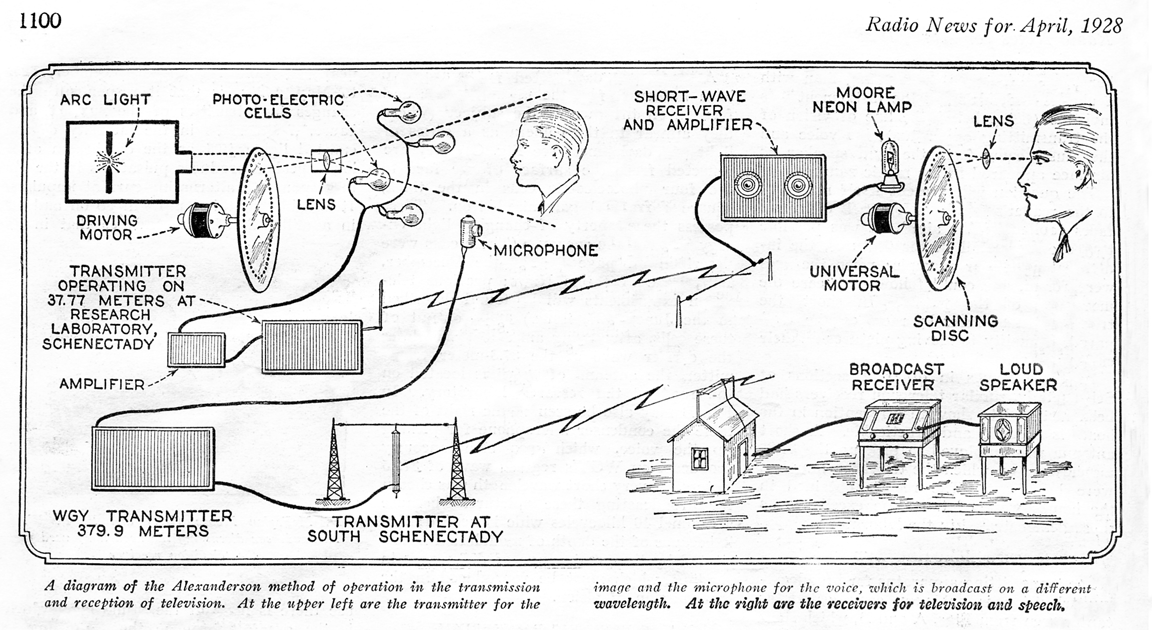 Diagram of an early mechanical-scan television system. This technology was used in the first experimental television broadcasting stations in the 1920s and 1930s, before it was replaced by modern electronic-scan television systems in the 1940s The television camera (top left) uses a spinning disk with a spiral pattern of holes, called a Nipkow disk, to sweep a narrow beam of light in a raster pattern across the subject. The reflected light would be picked up by a photoelectric cell whose electrical output would vary with the intensity of the light. This system was often called a "flying spot scanner". The early photoelectric cells were not very sensitive so three or four would be used with the subject in a darkened booth. The television receiver received the video signal produced by the camera's photoelectric cell, amplified it, and used it to drive a neon lamp. In front of the neon light was another Nipkow disk with the same hole-pattern as the camera, spinning synchronized at the same speed. Each hole passing in front of the neon lamp produced a scan line of the image. The varying video signal from the photoelectric cell varied the intensity of the neon lamp, producing the different The result was a small fuzzy monocolor orange picture about 1.5 inch square of the remote subject. Typical systems produced 25, 48, and 60 line images at frame rates of 15 and 20 frames per second. Alterations to image: This page was scanned by User:Swtpc6800 on an Epson Perfection 1240U at 300 dpi with half-tone de-screening enabled and stored as TIFF. The image was touched up in Adobe Photo Elements 5.0 and this copy saved as a 150 dpi PNG. The magazine is 8.5 by 11.5 inches (23 by 29 cm). Image:Radio News Apr 1928 pg1098.png Image:Radio News Apr 1928 pg1099.png Image:Radio News Apr 1928 pg1100.png